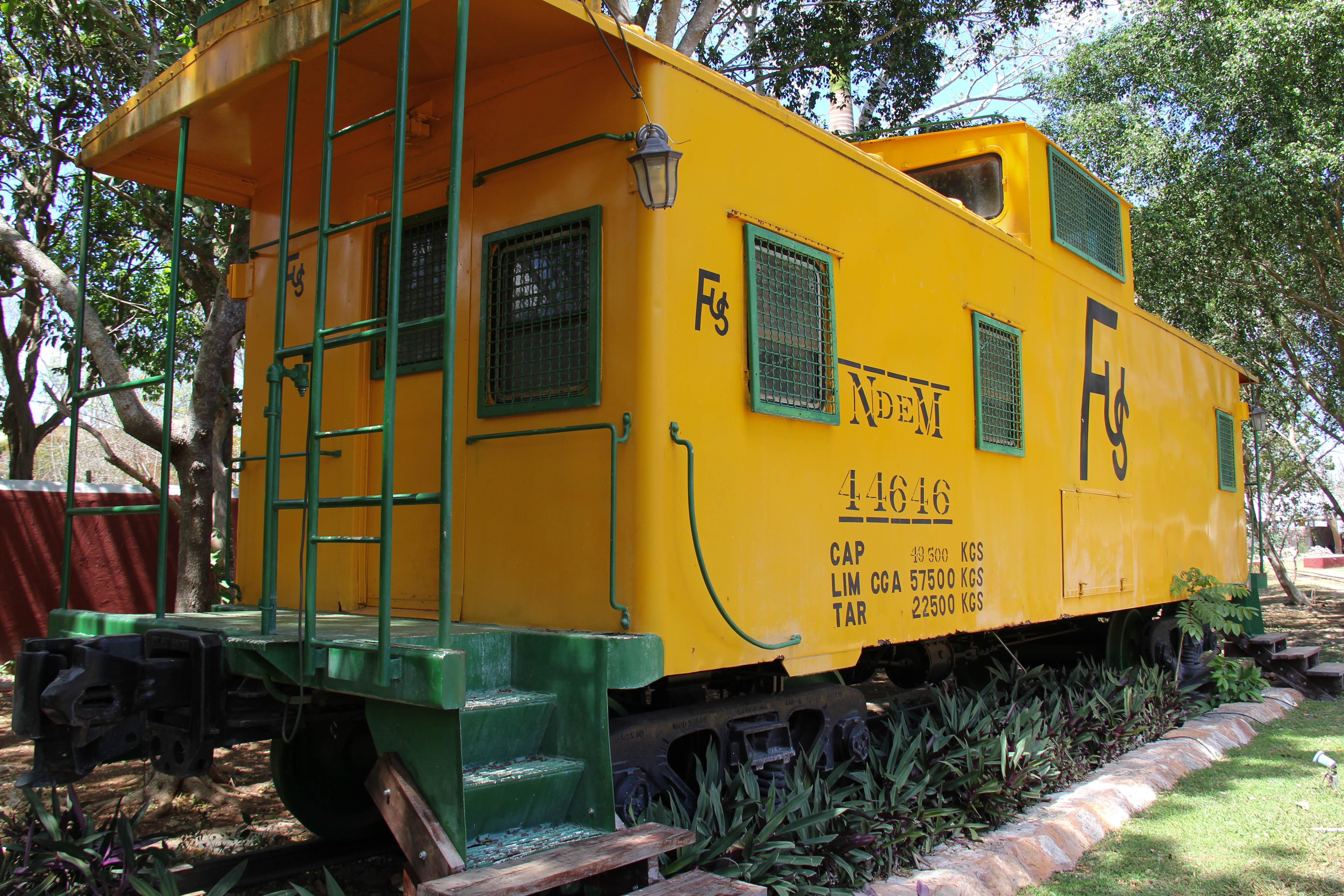 Hacienda Sotuta de Peón, Yucatan, Mexico. Old caboose with logo of defunct Ferrocarriles Unidos del Sureste.